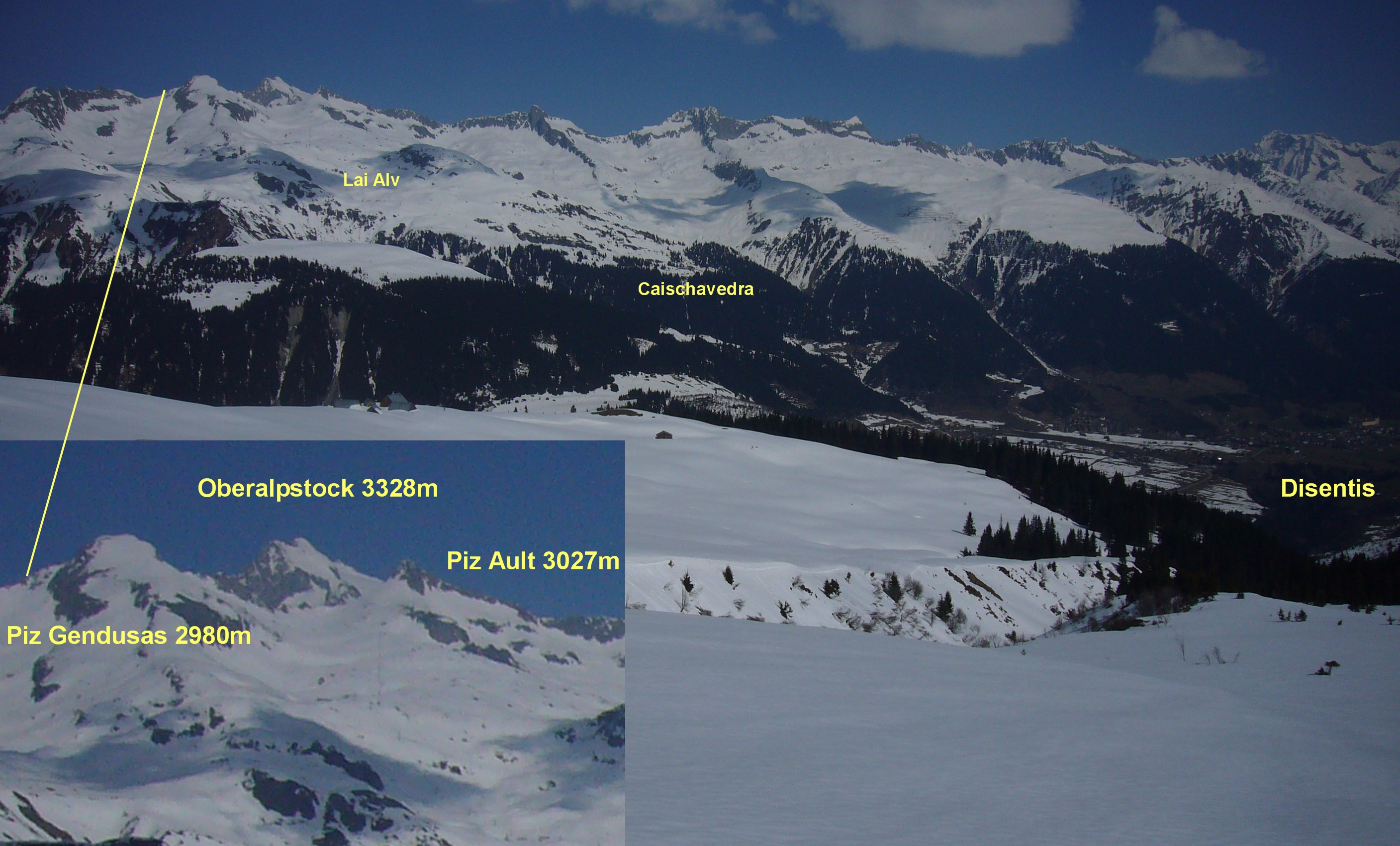 Mountains north of the Rhine Valley in the Disentis region: from Oberalpstock at the left edge to Tödi / Piz Rusein at the right.